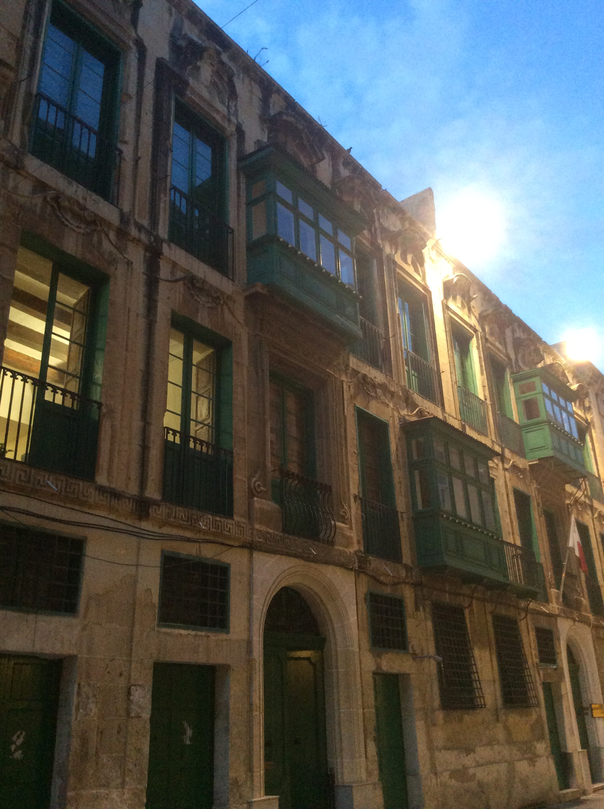 Valletta This media is about Maltese cultural property with inventory number 01572.